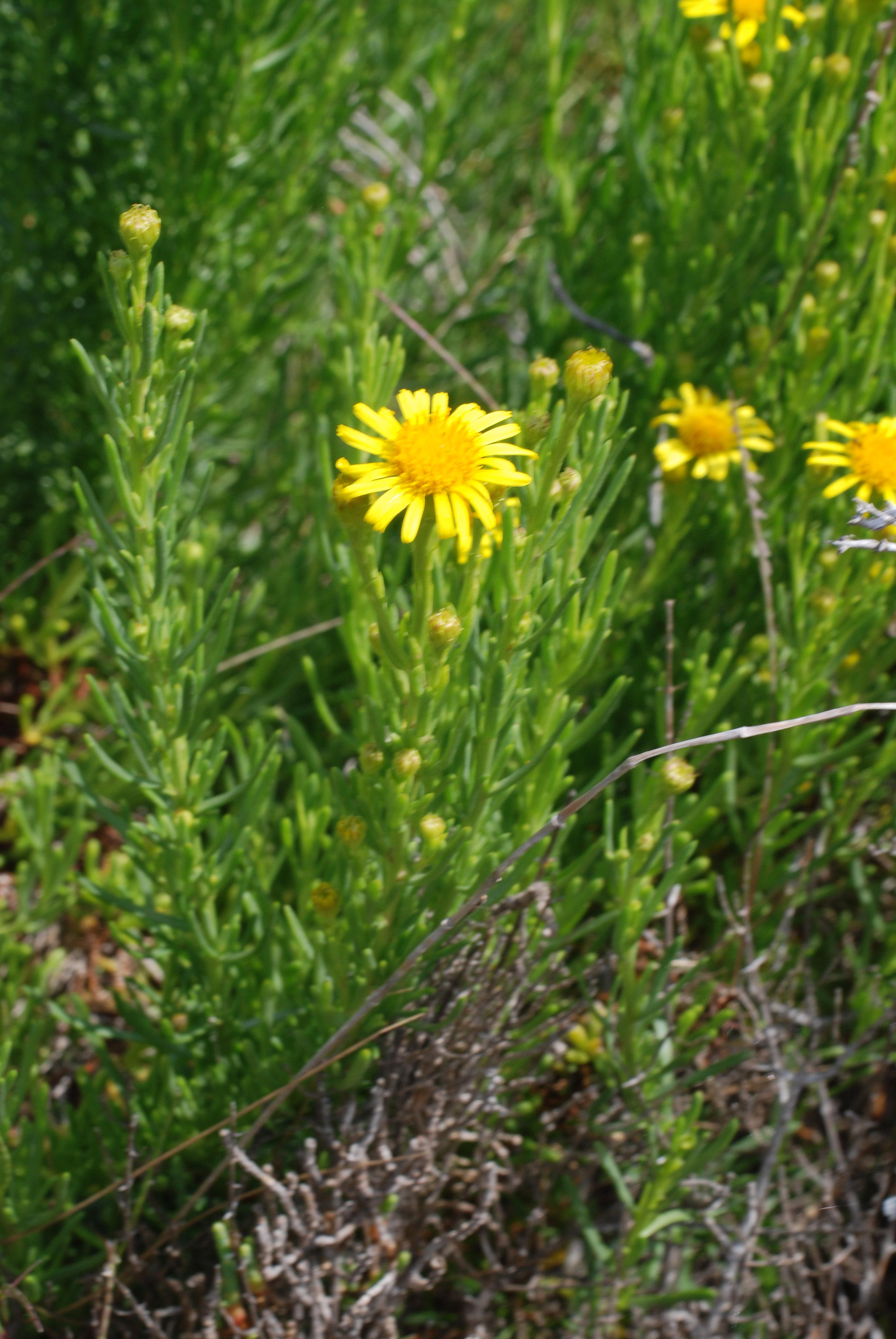 Inula crithmoides, Reserva Natural de Ses Salinas, Ibiza